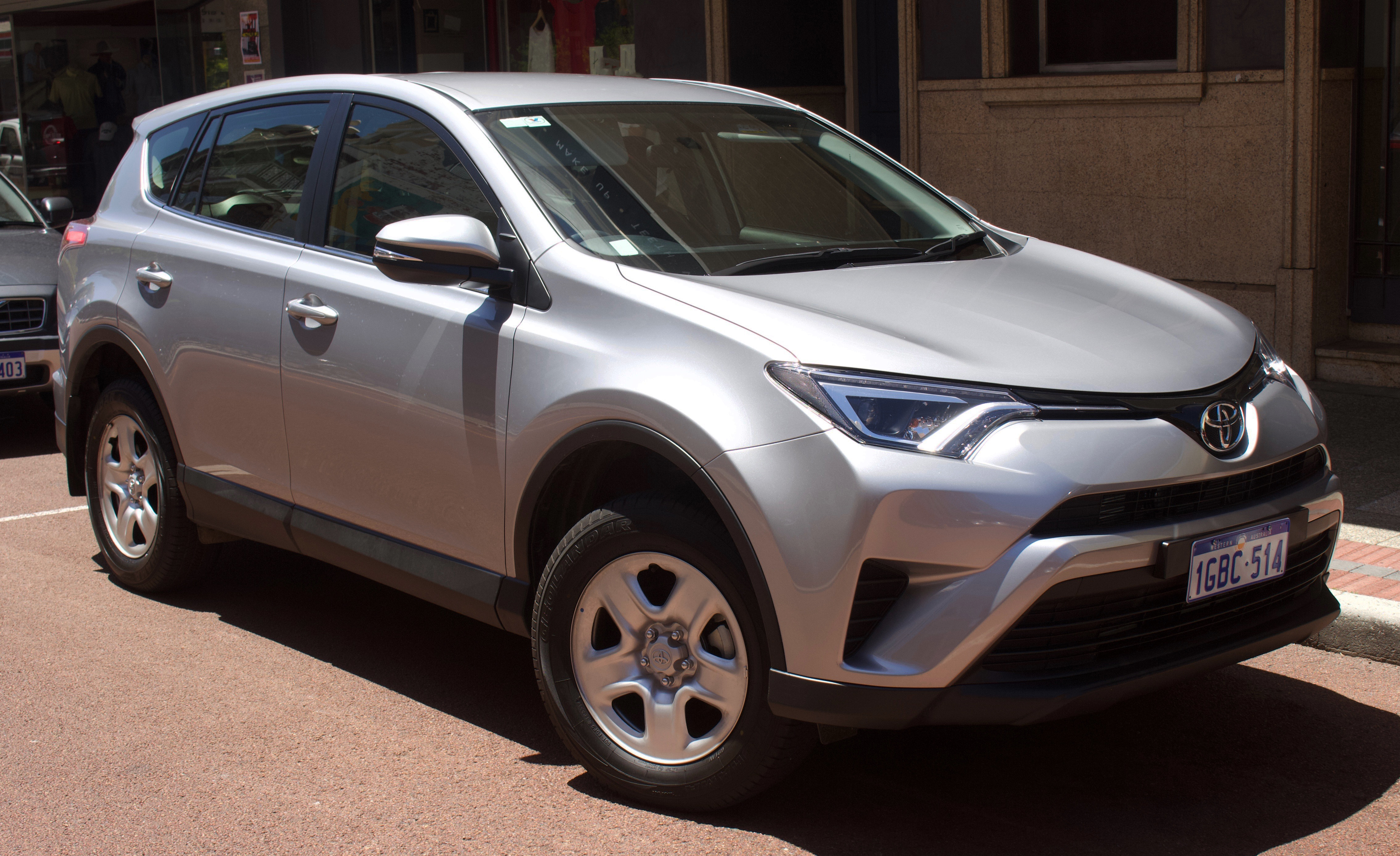 2016 Toyota RAV4 (ASA44R MY16) GX wagon. Photographed in Fremantle, Western Australia, Australia.